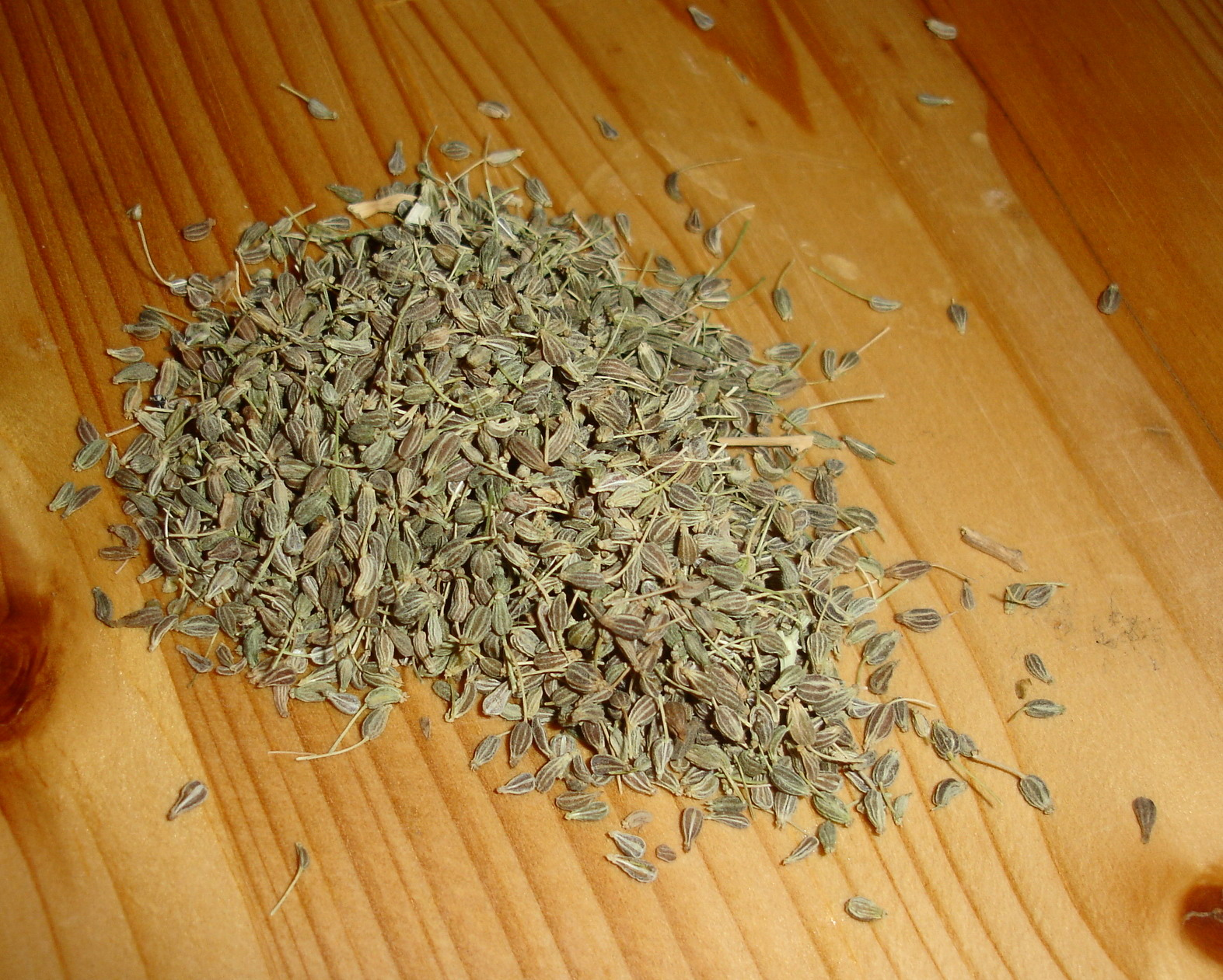 Aniseed on a table